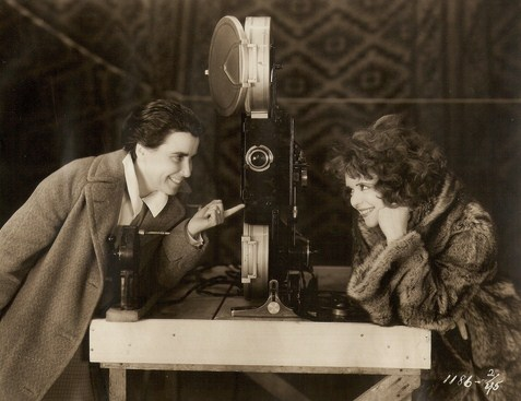 Dorothy Arzner (director) & Clara Bow on the set of The Wild Party (1929) - publicity still (cropped : see source).